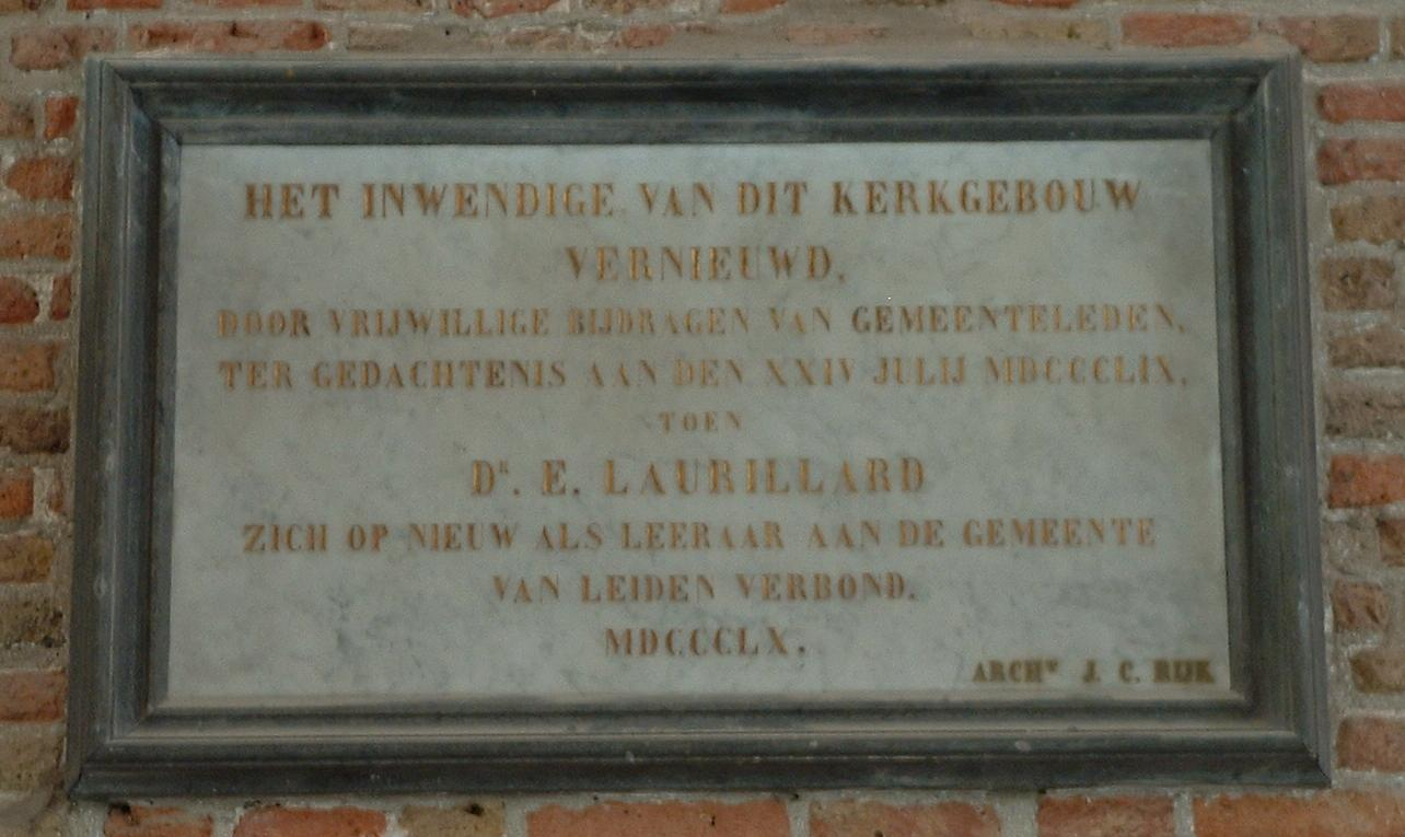 Memorative stone for the change of furniture in the Pieterskerk Leiden 1860